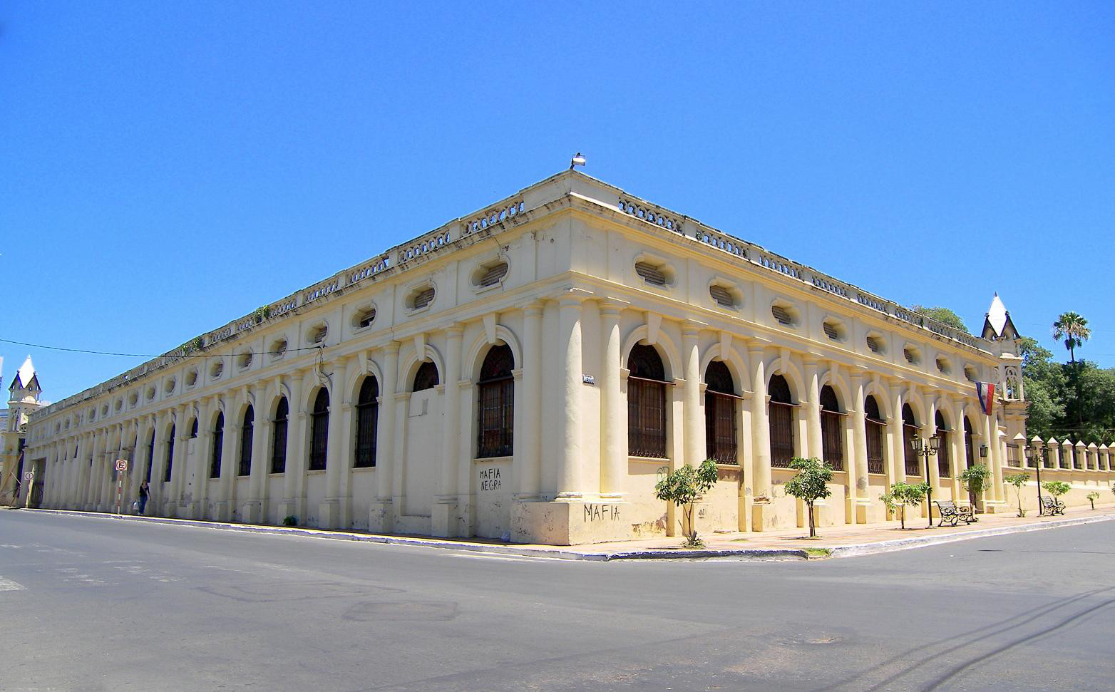 Ferrocarril del Paraguay